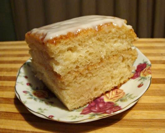 Smetannik, Russian and Ukrainian cake made with sour cream